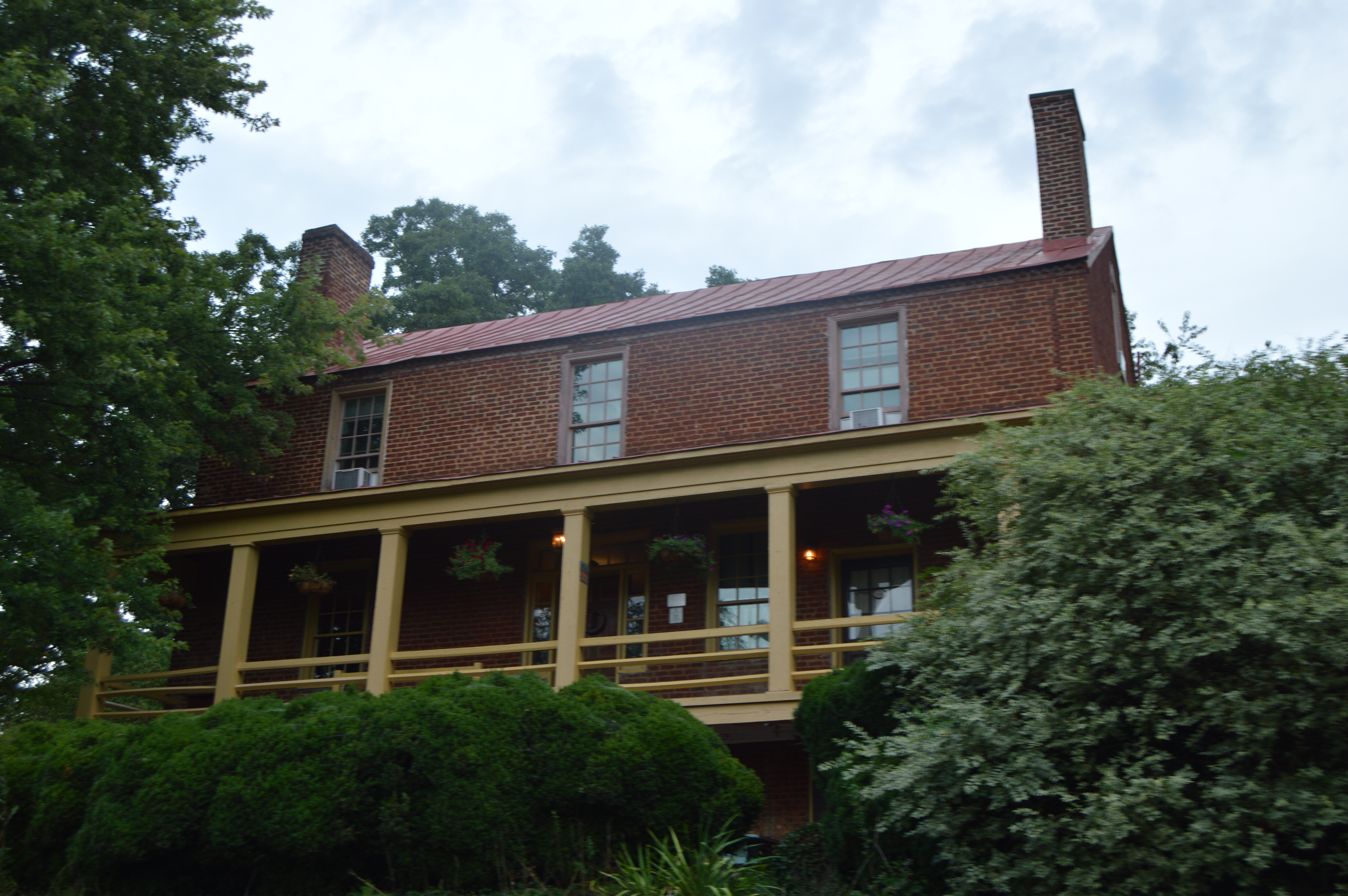 Front of the Crossroads Tavern, located on Plank Road just off U.S. Route 29 southwest of Charlottesville in Albemarle County, Virginia, United States. Built in 1820, it is listed on the National Register of Historic Places.